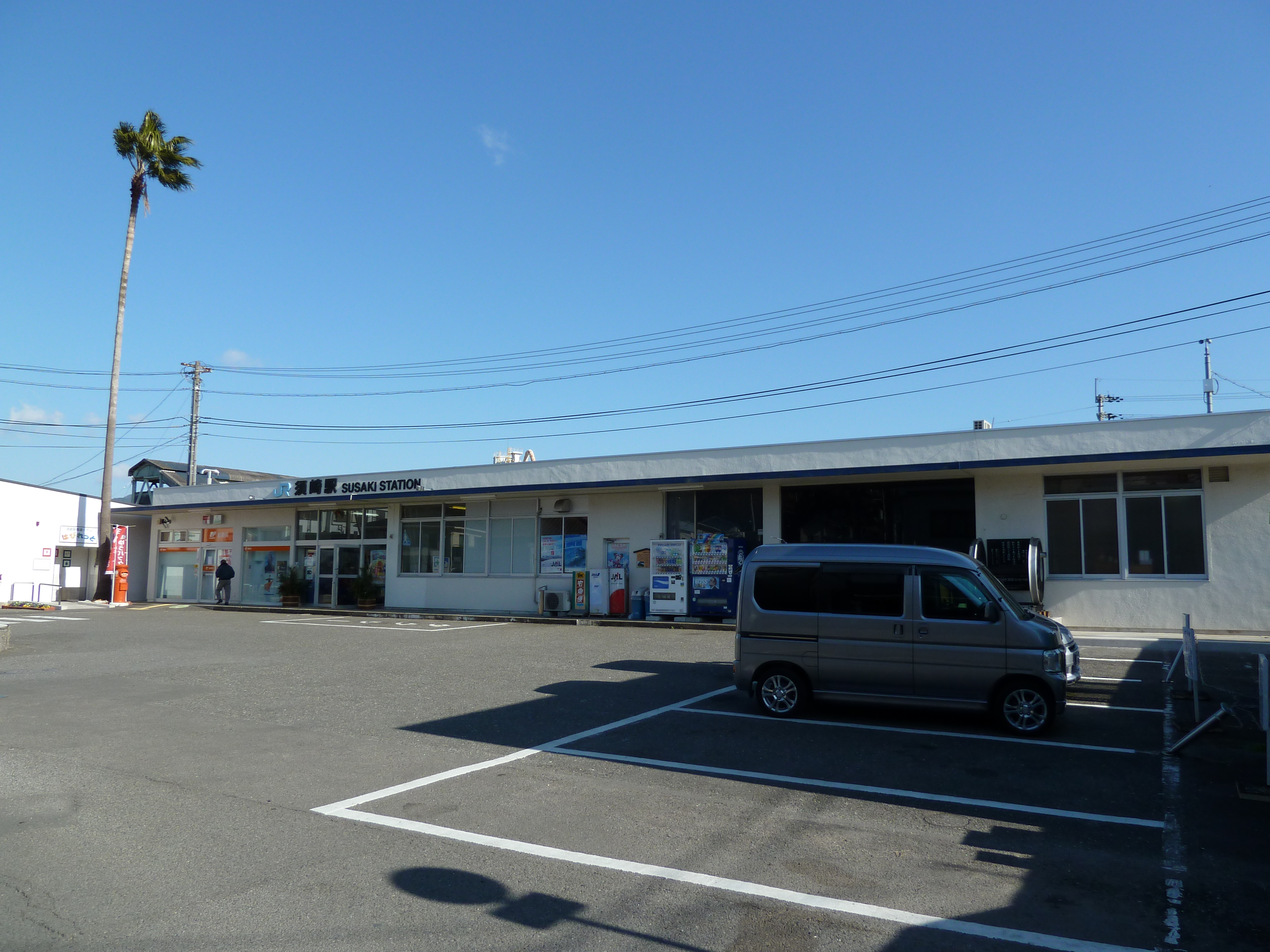 須崎駅の駅舎